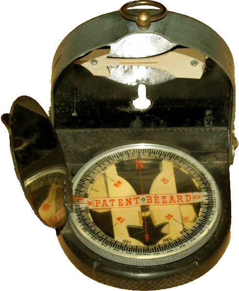 Bézard compass large model II 1910